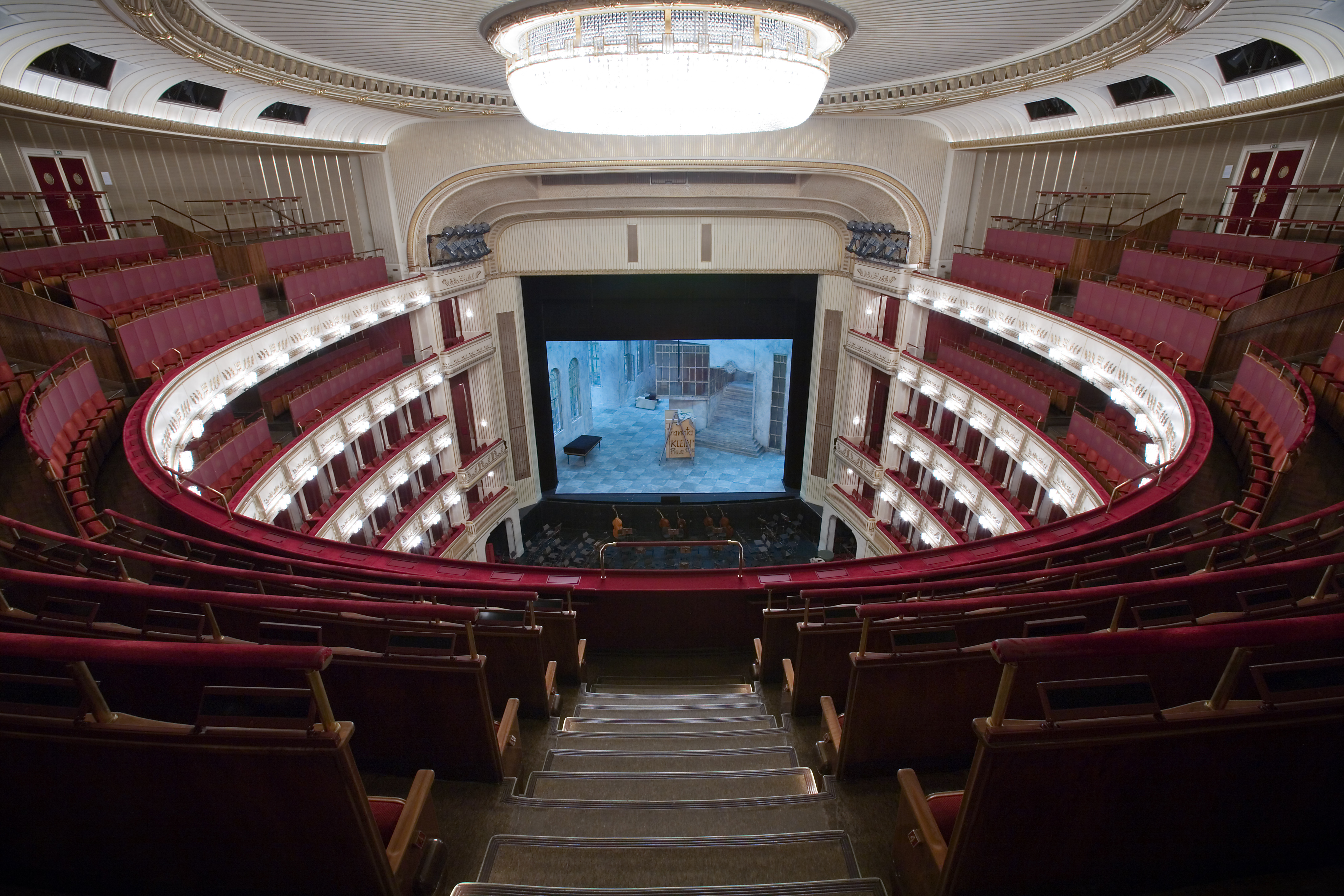 Vienna Opera main auditorium, Vienna, Austria